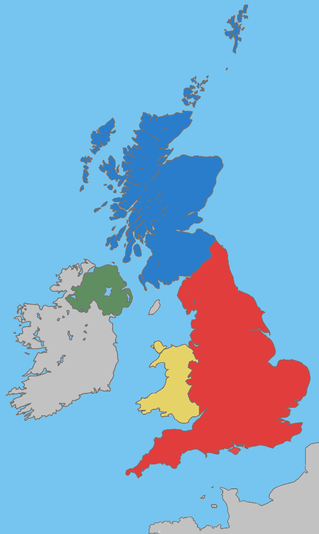 Image of the Home Nations Red = England Green = Northern Ireland Blue = Scotland Yellow = Wales